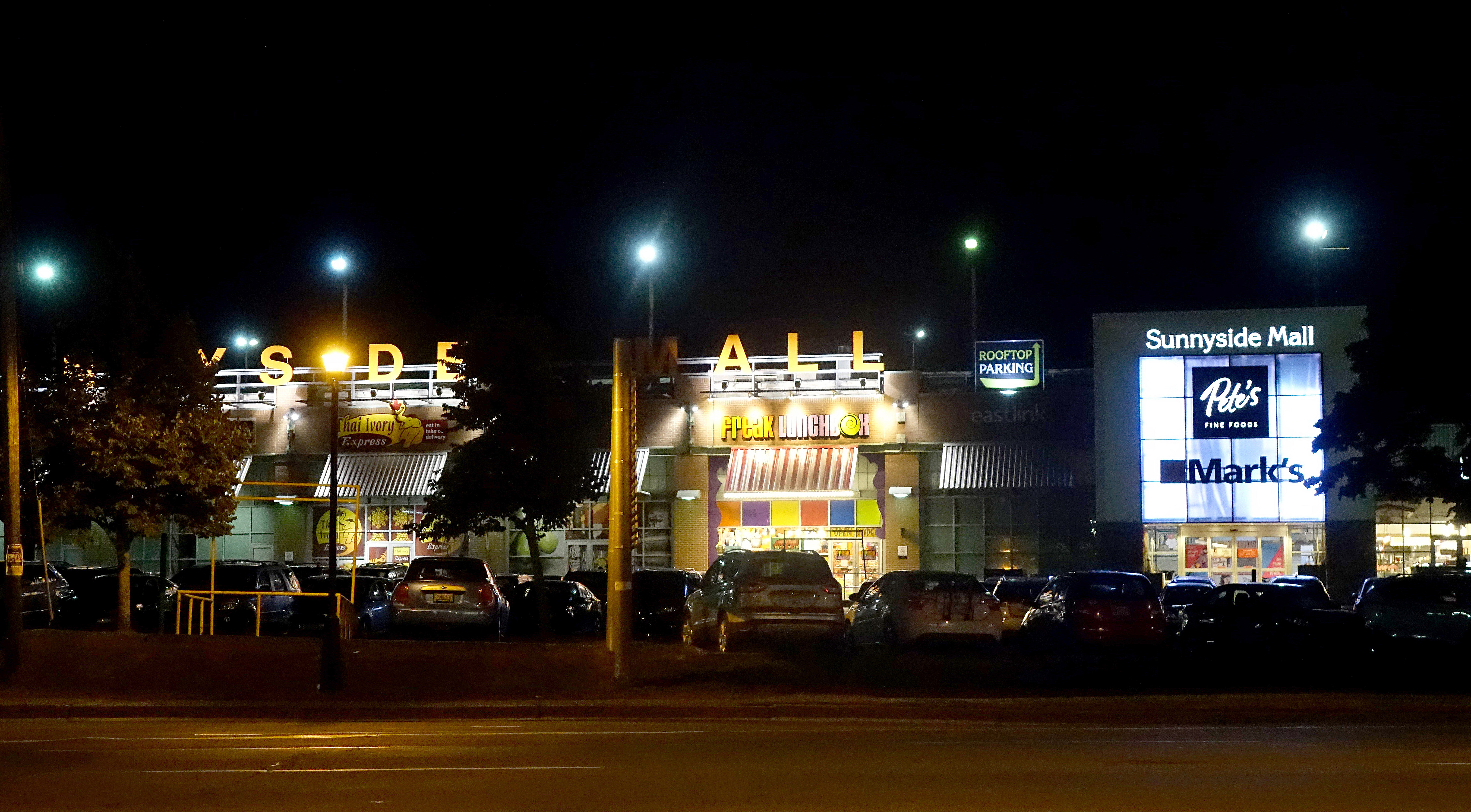 The Sunnyside Mall at night on September 1, 2018, in the Bedford area of the Halifax Regional Municipality (HRM), Nova Scotia, Canada. Shopping mall located at 1595 Bedford Highway.